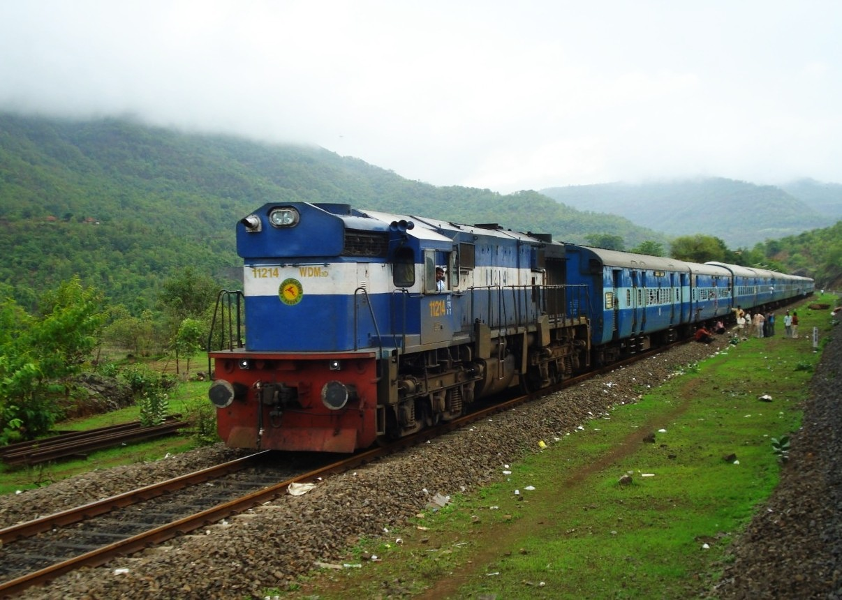 Mumbai-thiruvananthapuram Netravathi exp waiting for a crossing at some Konkan railway station.